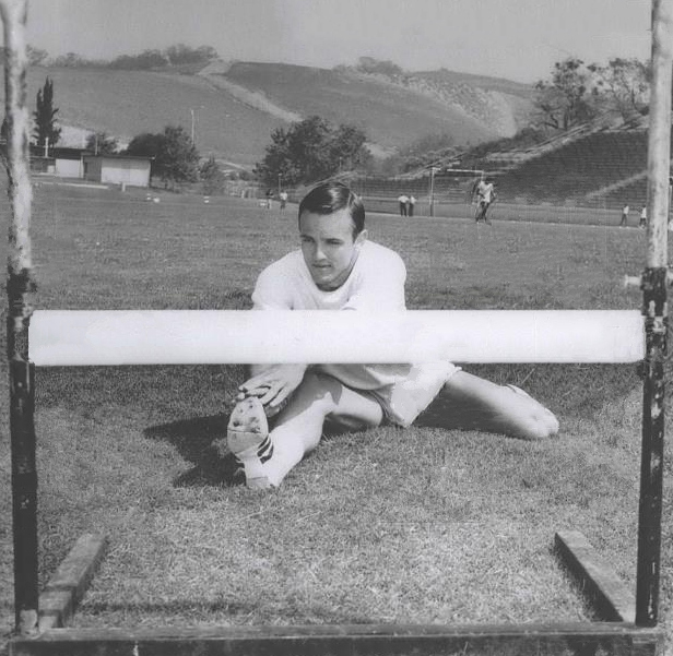 1964 Press Photo Jay Luck of the New Haven Track Club trains for the Olympics